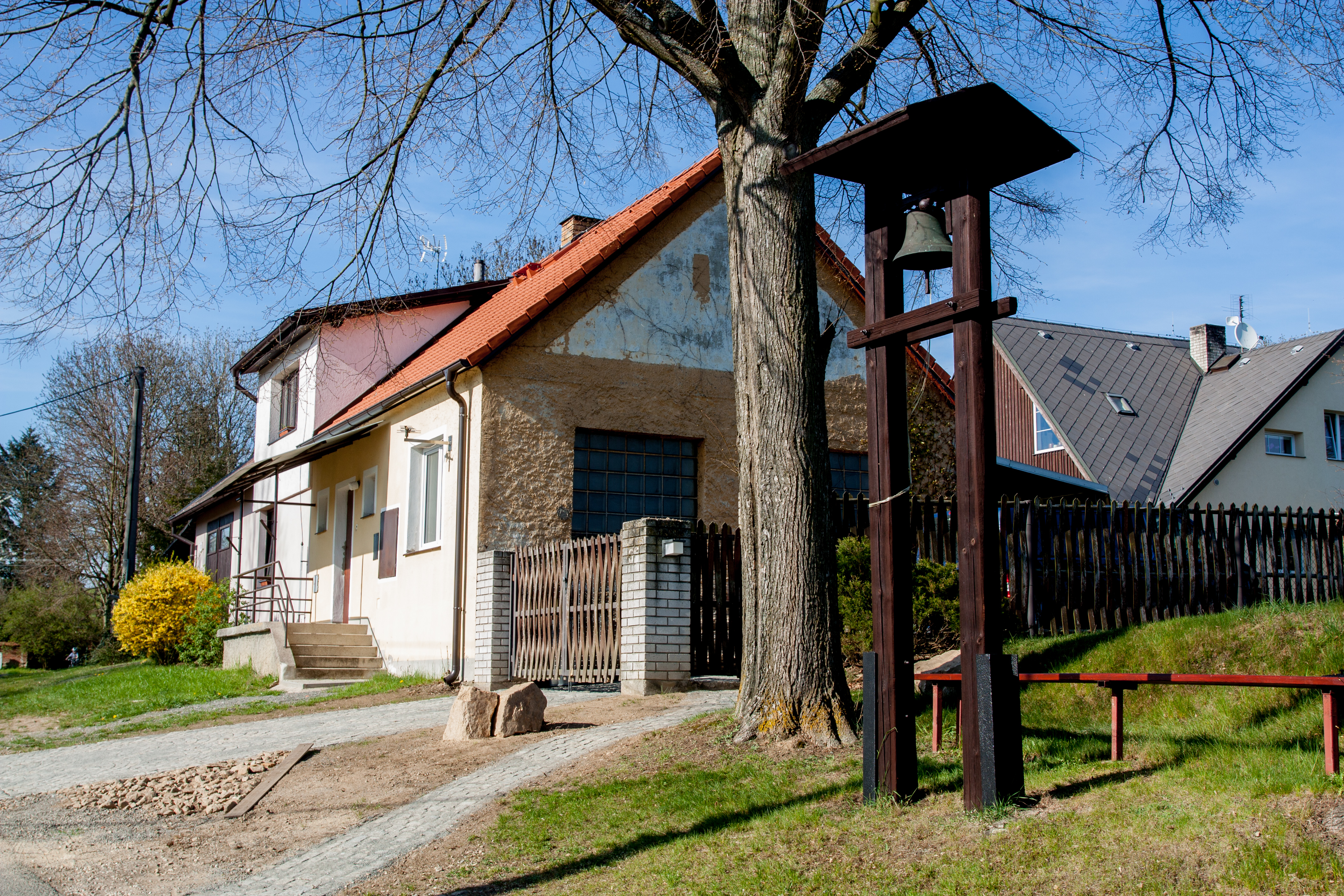 x in municipality Moraveč, Tábor District, South Bohemian Region, Czechia